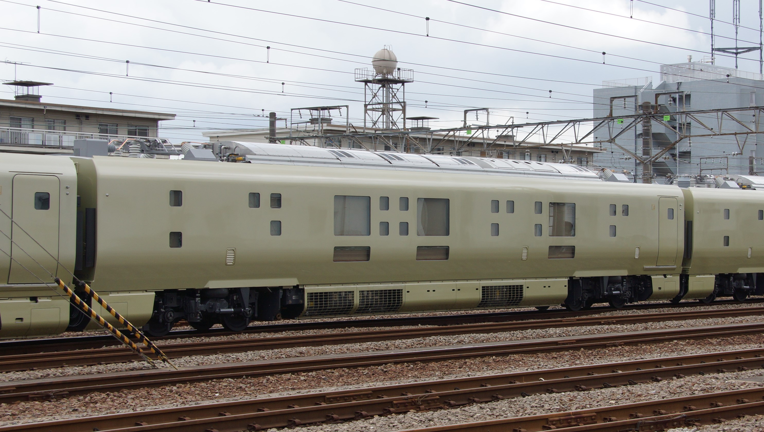 Car E001-3 (car 3) of the JR East E001 series Train Suite Shiki-shima cruise train at Shin-Tsurumi Yard while on delivery from the Kawasaki Heavy Industries factory in Kobe